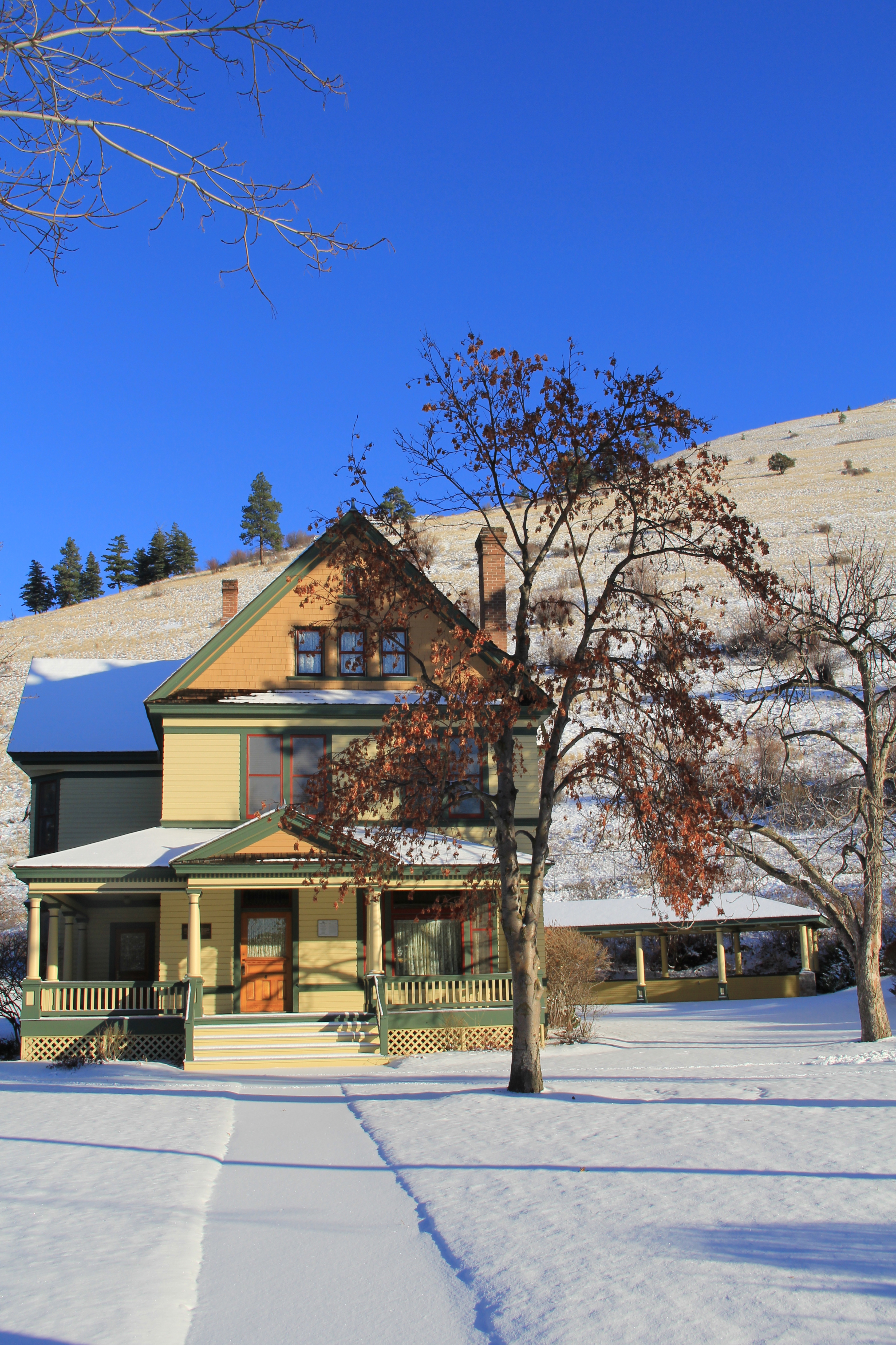 Queen Anne style house on the University of Montana campus. Built in 1898.